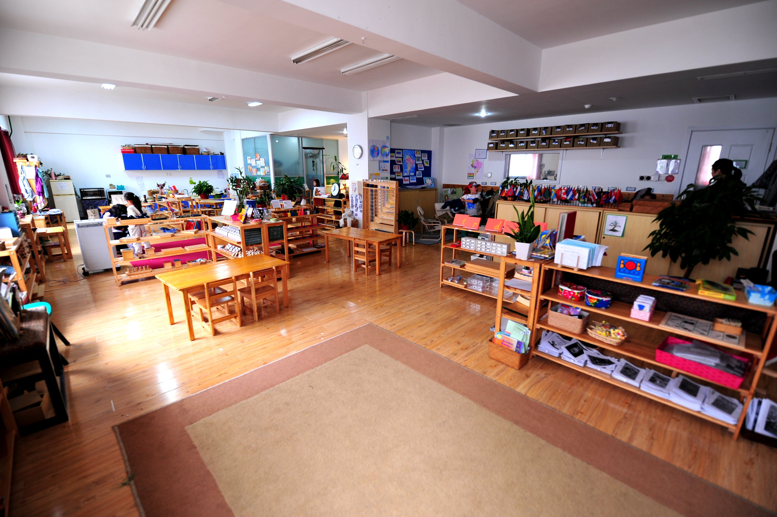 The Early Childhood classrooms are filled with a wide range of didactic materials. The whole world of culture-embracing subject areas, such as geography, history, science, music, art, language and mathematics is open to the child.